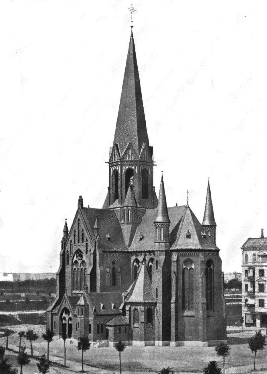 The St. Louis Church on Ludwigkirchplatz in Berlin-Wilmersdorf around 1900. It was built 1895 to 1897 to a design by architect August Mencken. The church is dedicated to King Louis IX of France. The photo shows that around 1900 large parts of Wilmersdorf were still undeveloped.